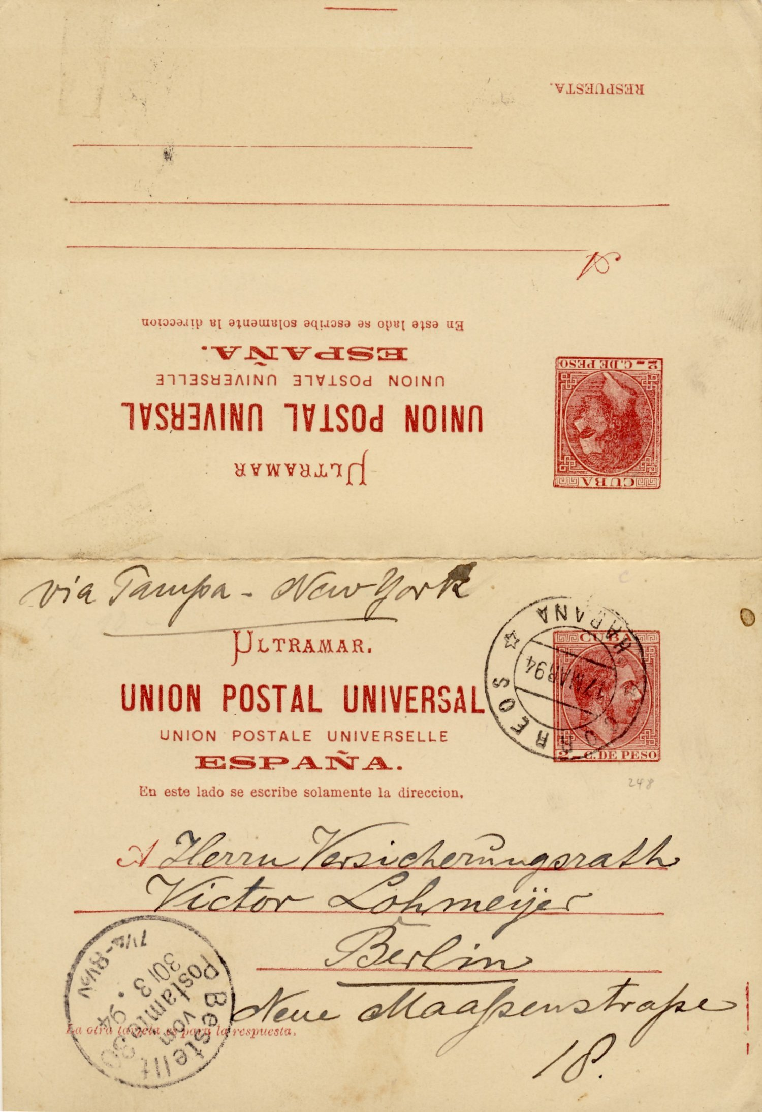 Message-Reply Postal Card, Cuba, Circa 1890